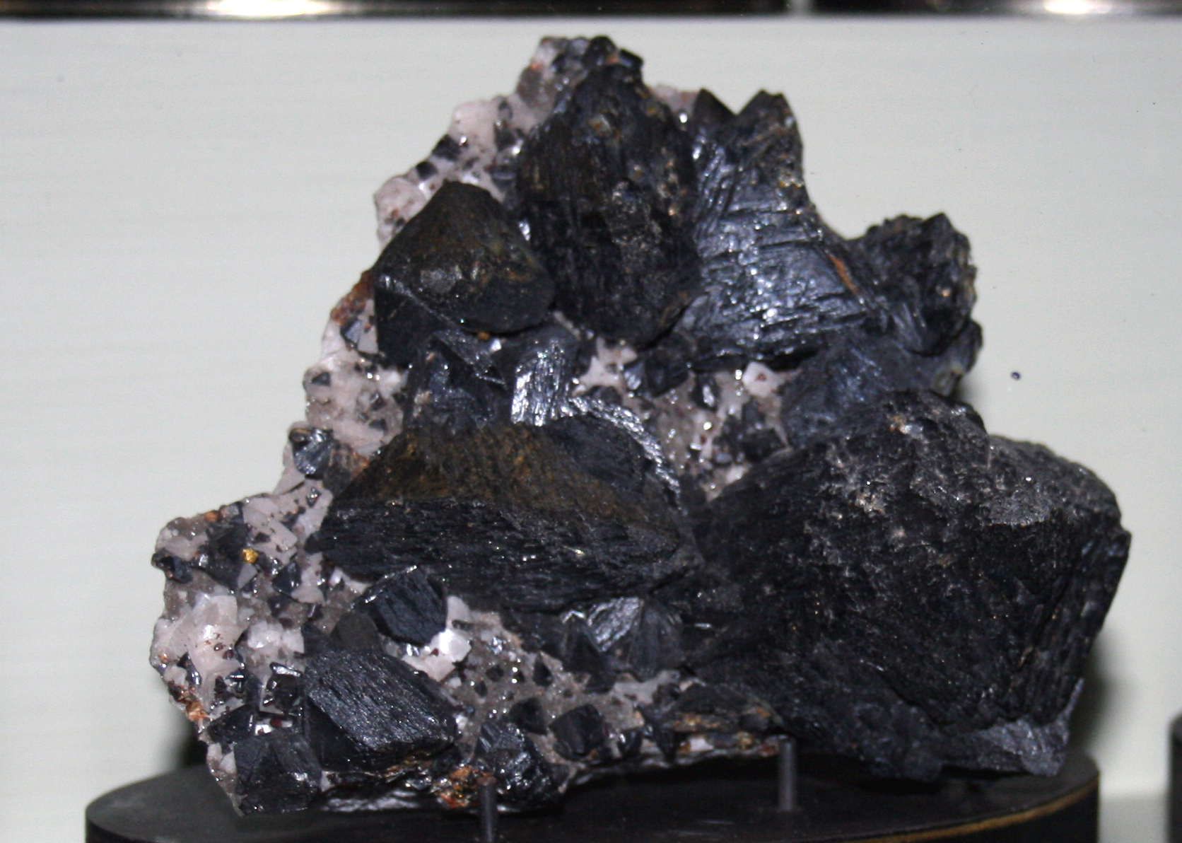 Mineral sphalerite, chemical composition: ZnS, from collection of National Museum, Prague, Czech Republic, originally from Canada